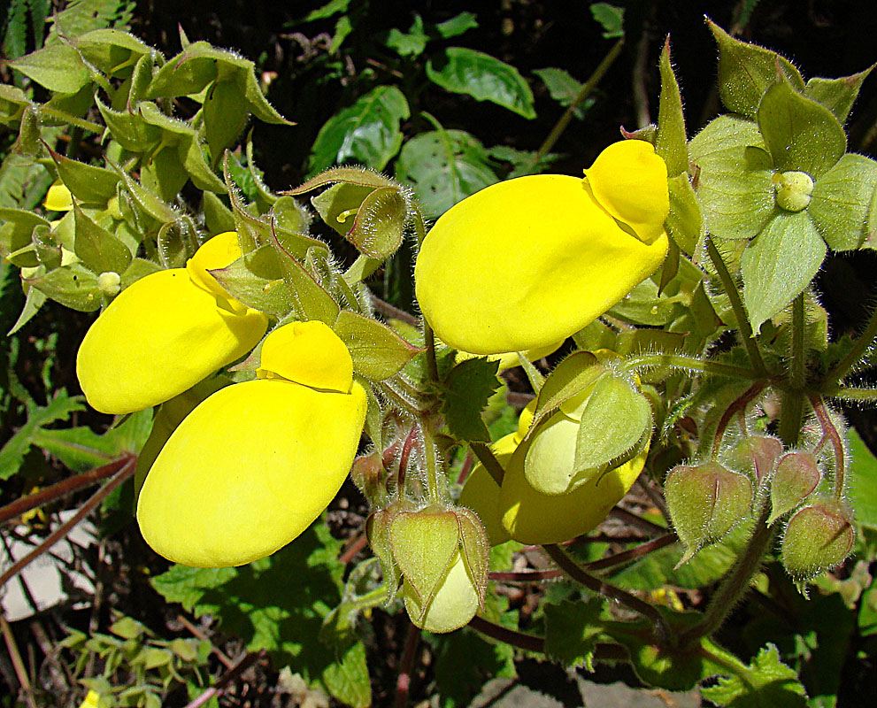 A Peruvian species, said to be the largest flowers of the genus. Botanical Gardens, UC Berkeley. In context at